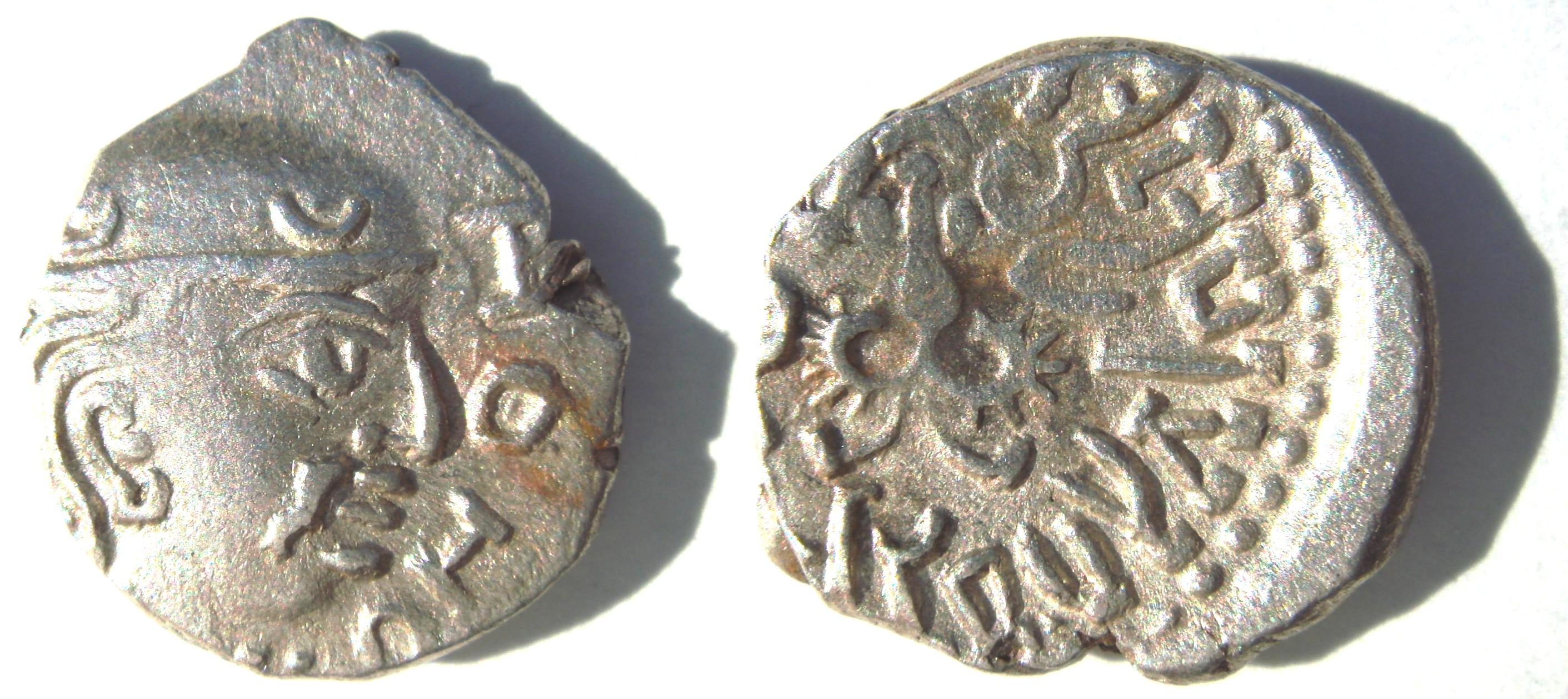 Coin of the Gupta king Kumara Gupta I. Obv: Bust of King Kumaragupta with headband decorated with crescents. Imitative of Indo-Greek coinage through the Western Kshatrapa, with ruler in profile circled by a pseudo-Greek legend (Numismatic reference, also: [1]). Rev: Garuda bird, circled by legend in Brahmi "Parama-bhagavata rajadhiraja Sri Kumaragupta Mahendraditya". Actual size: 14mm in diameter, 2.0g. Personal photograph 2005. Released under GFDL.